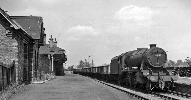 Brooksby Station (remains), with train. View NE, towards Melton Mowbray; ex-Midland Leicester - Syston - Melton Mowbray main line, now a section of the Birmingham - Norwich trunk route. Brooksby station had been closed to passengers on 3/7/61, but was still open for goods, until 4/5/64. The train is a Down iron-ore train, headed by a Stanier 8F 2-8-0.